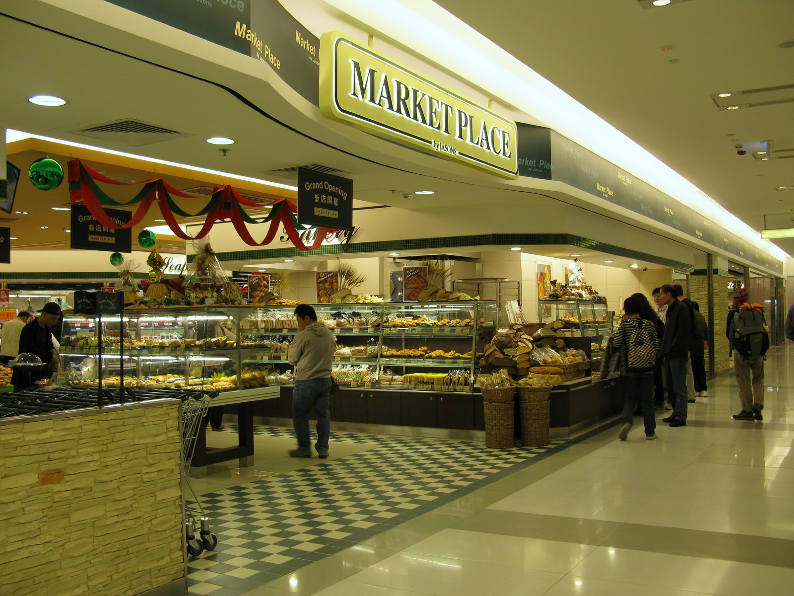 Market Place by Jasons at B1, K11